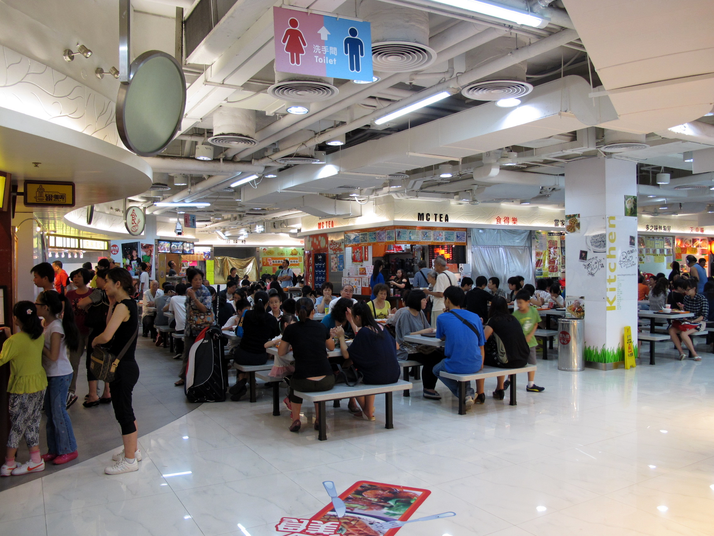 Dragon Centre Food Court